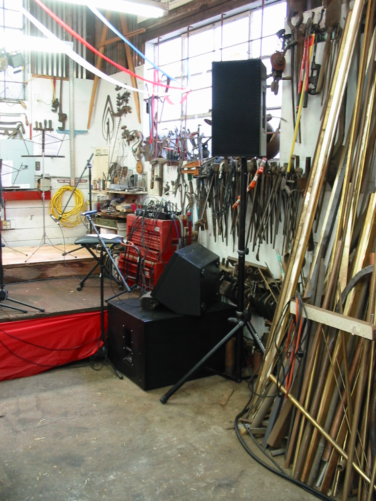 A trio of EONA ADRaudio loudspeakers standing ready for a barndance event. A U 103 loudspeaker is placed atop a tripod speaker stand, an ATA 118 subwoofer is on the ground against the stage, and an M 1225 monitor wedge faces the musicians, sitting on top of the subwoofer.